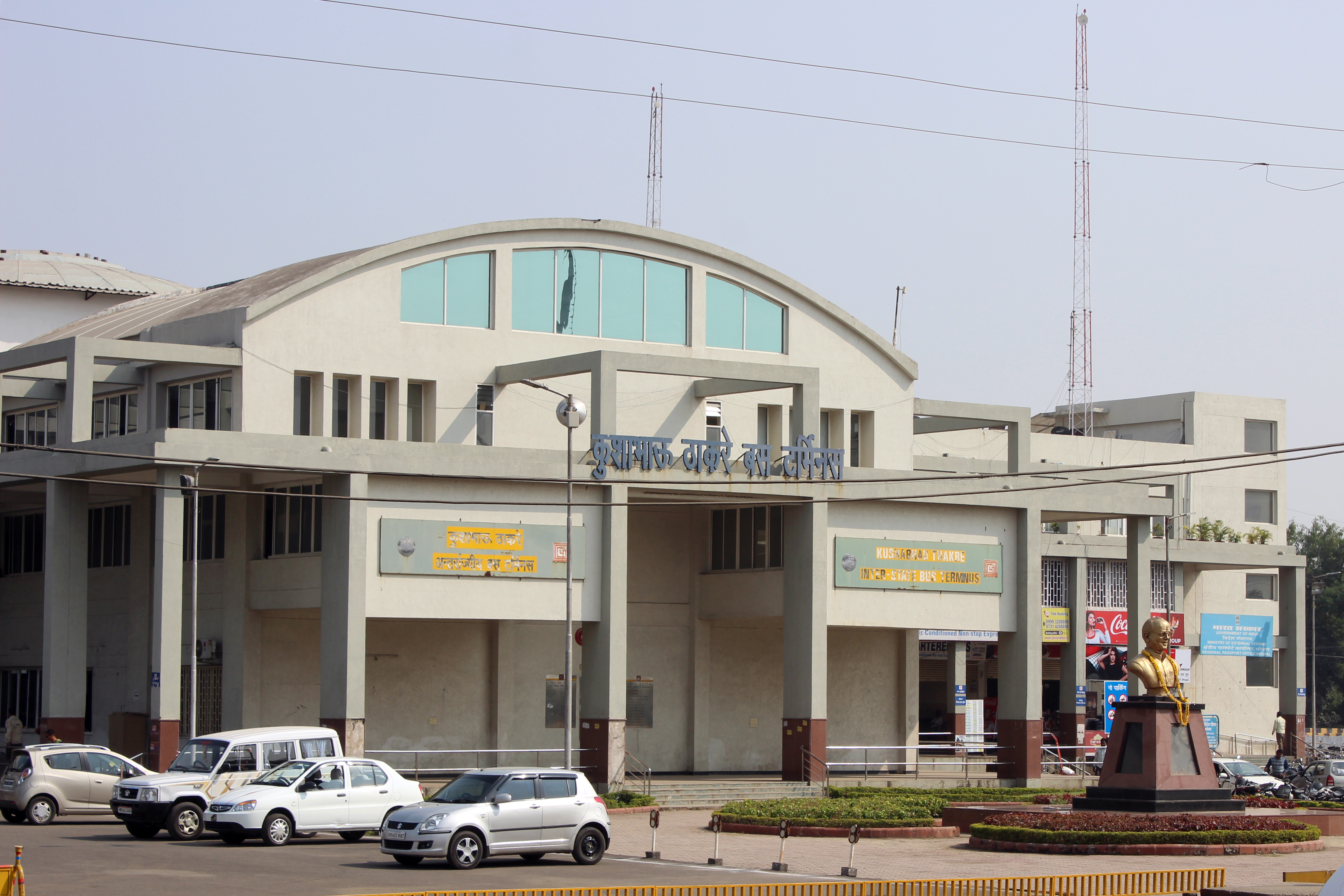 Kushabhau Thakre ISBT Bhopal